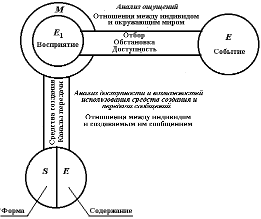 Gerbner communication model